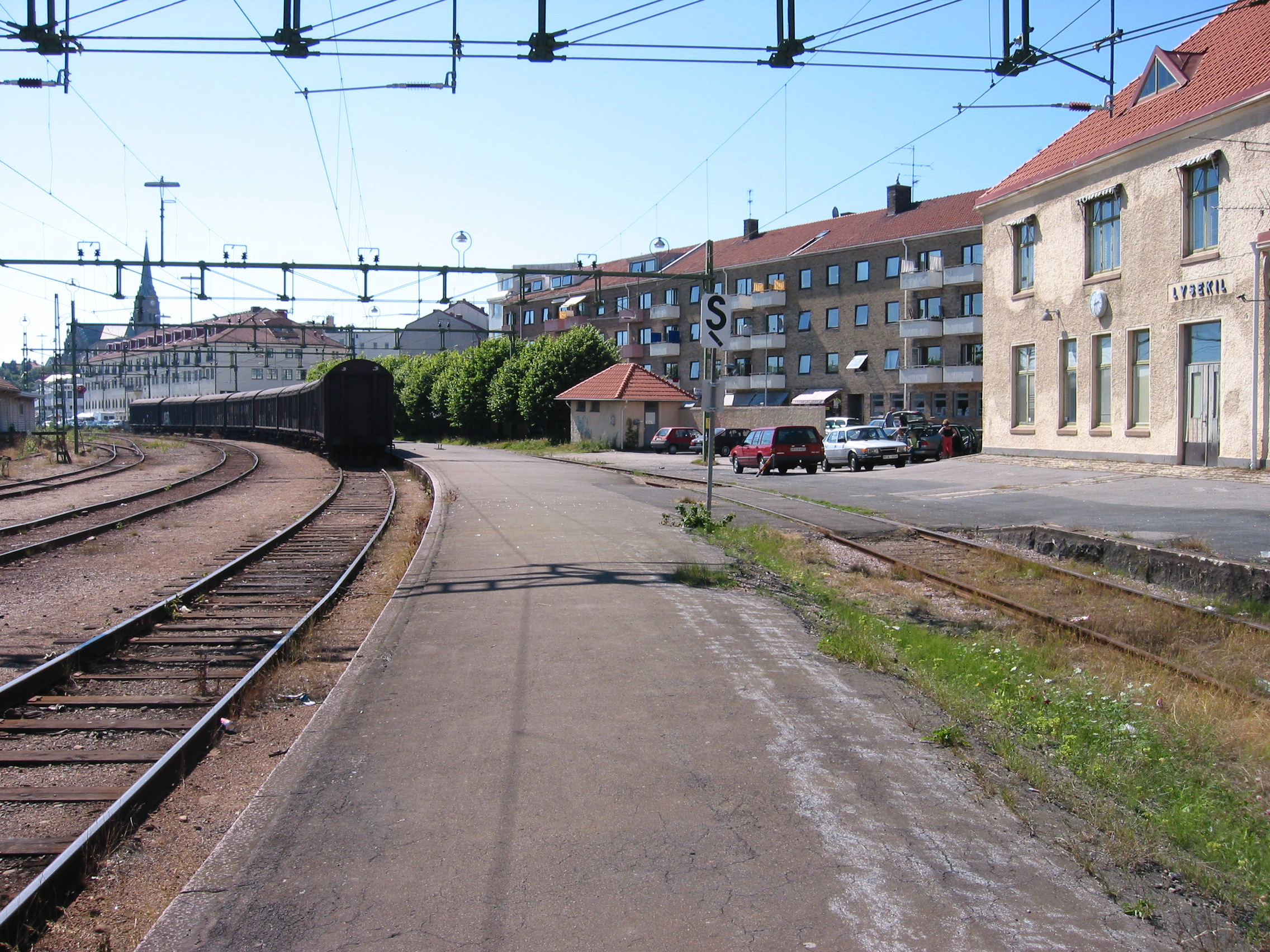 Lysekil railway station